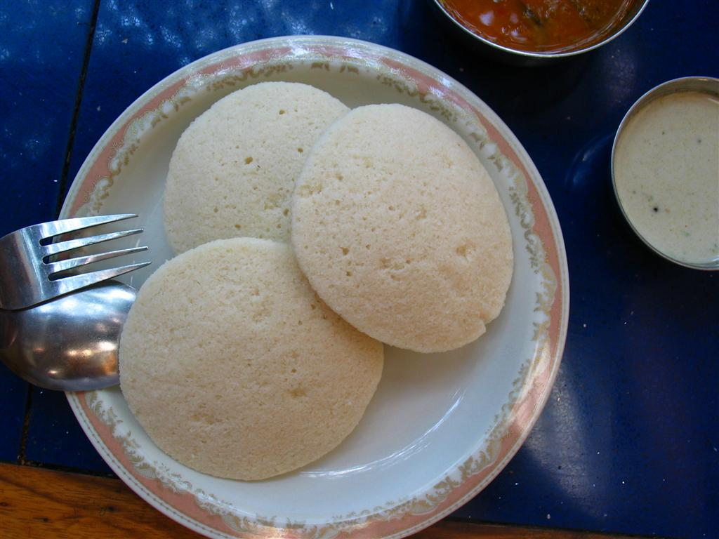 Idli, a traditional South Indian food